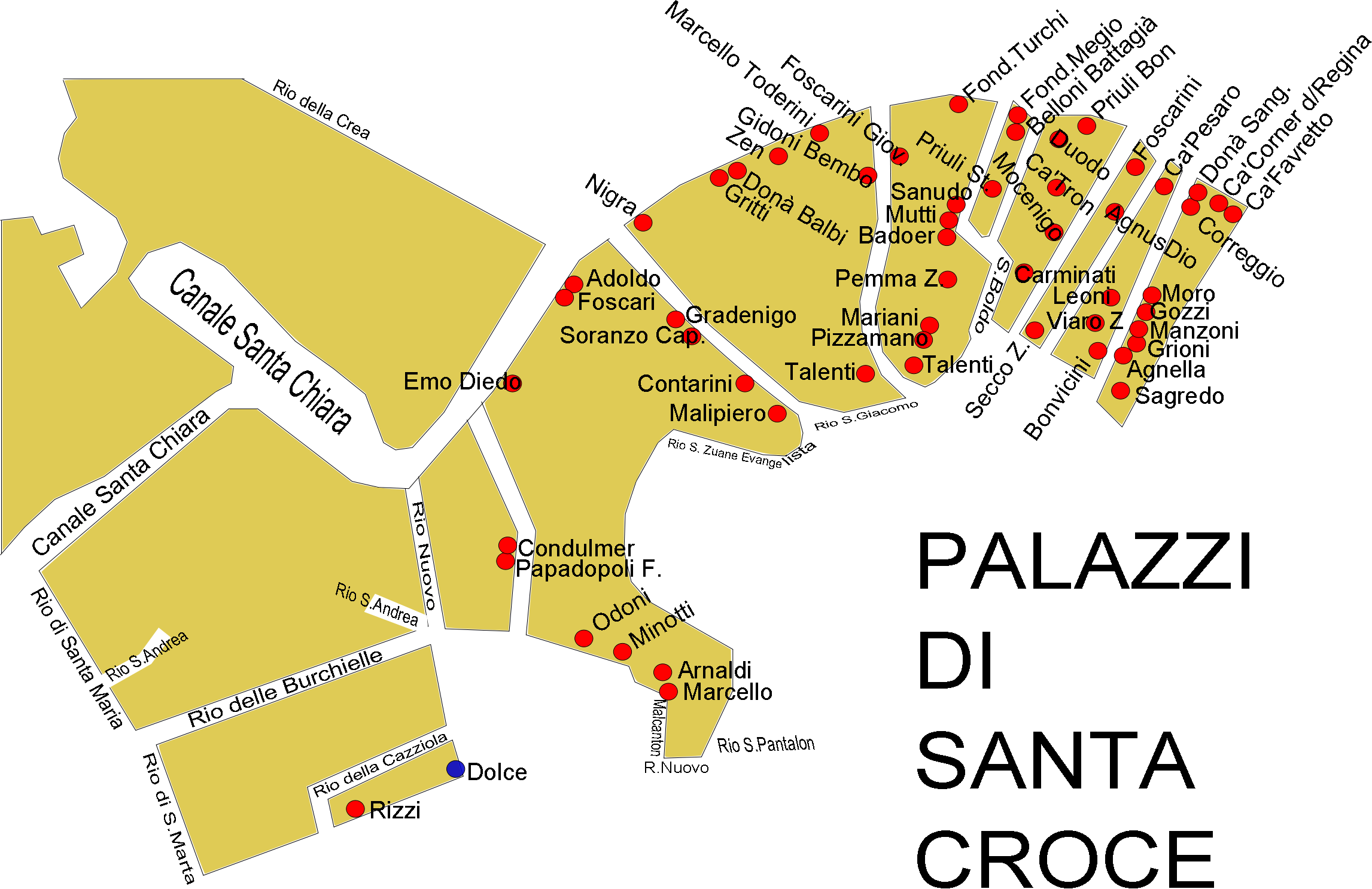 palaces of santa croce - venice